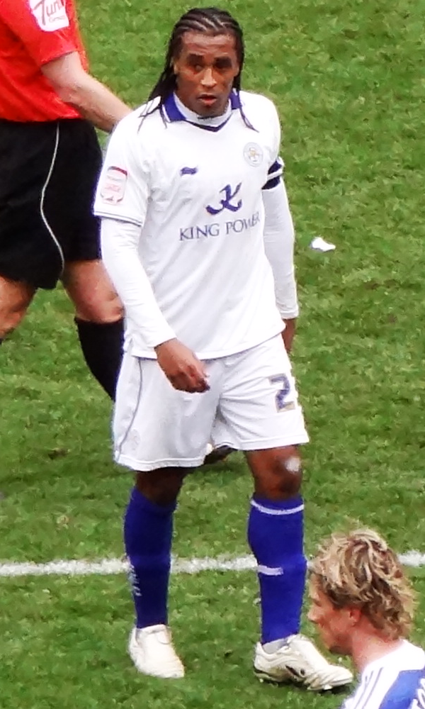 (Image cropped from original at Flickr)